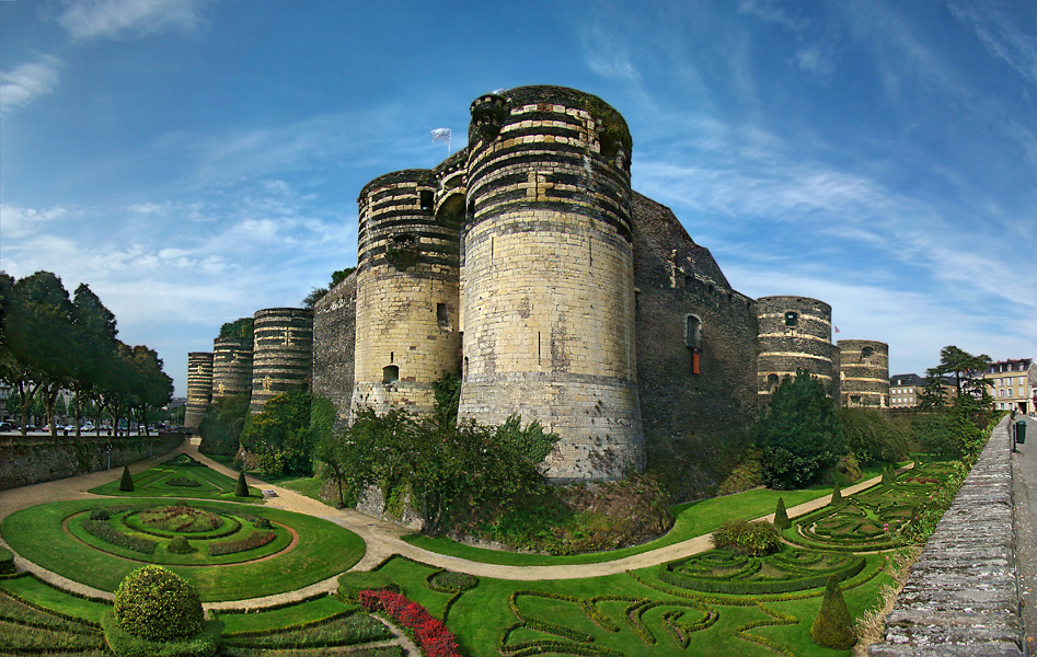 Château d'Angers, Maine-et-Loire, Pays de la Loire, France. The gate of the fields on the south side in the foreground, used to be the main entrance into the fortress originally.